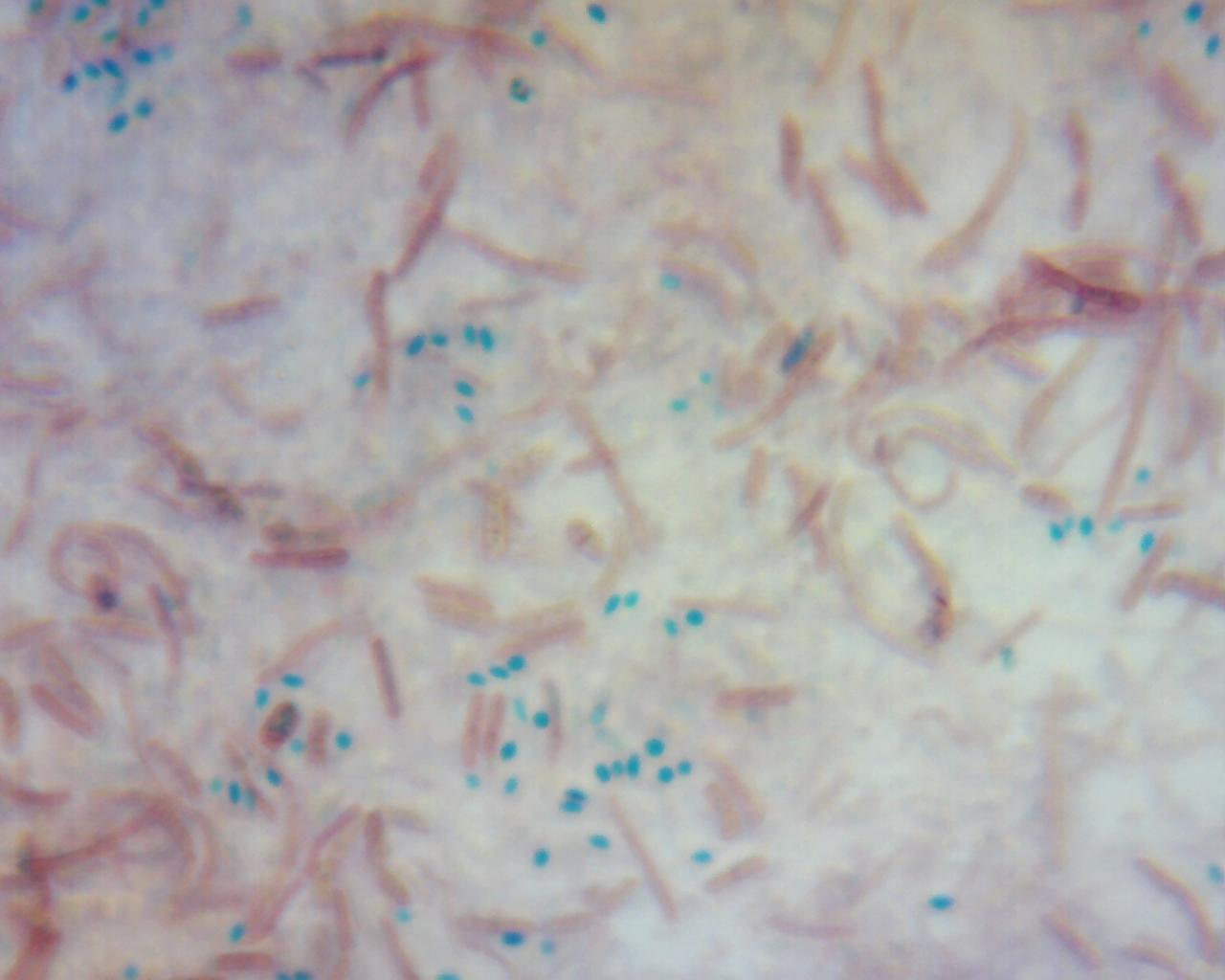 Schaeffer-Fulton method endospore stain of Bacillus cereus (1 week culture on nutrient agar). Blue-green ovals are endospores. Vegetative cells are red. 1000x total magnification. Bright field.